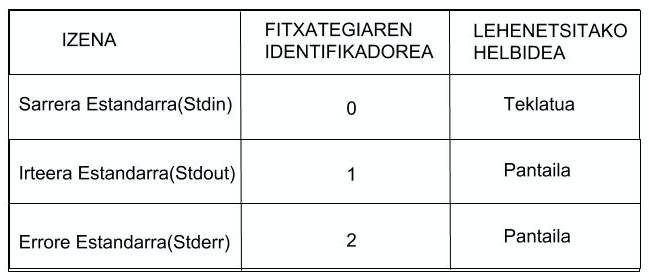 S/I Kanal estandarrak